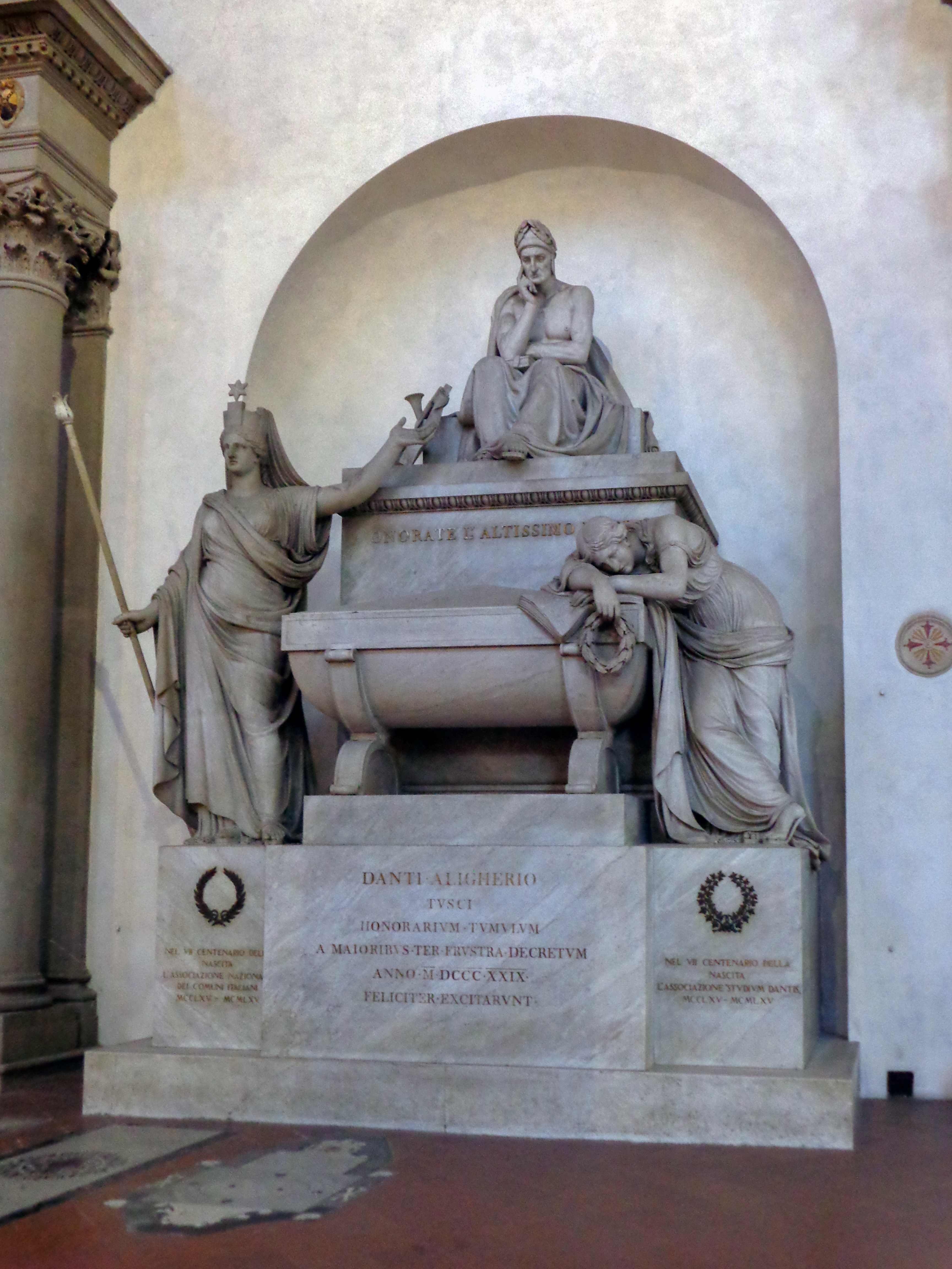 The сenotaph of Dante Alighieri